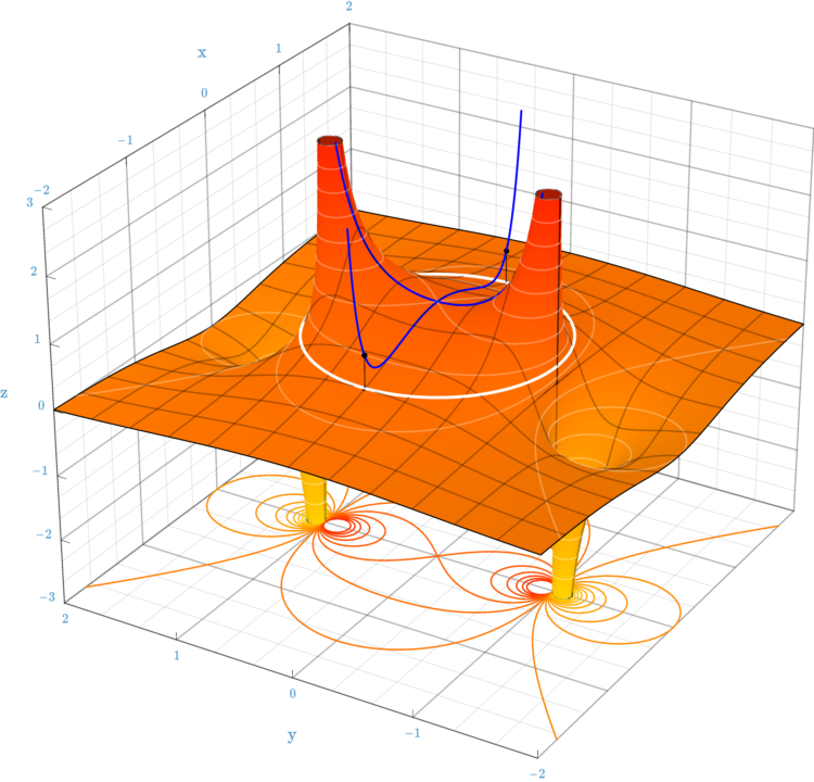 Original text: Demonstration of radius of convergence of taylor series with an eighth degree approximation of z = 1/((x+iy)^2 + 1). Selfmade with MuPad.